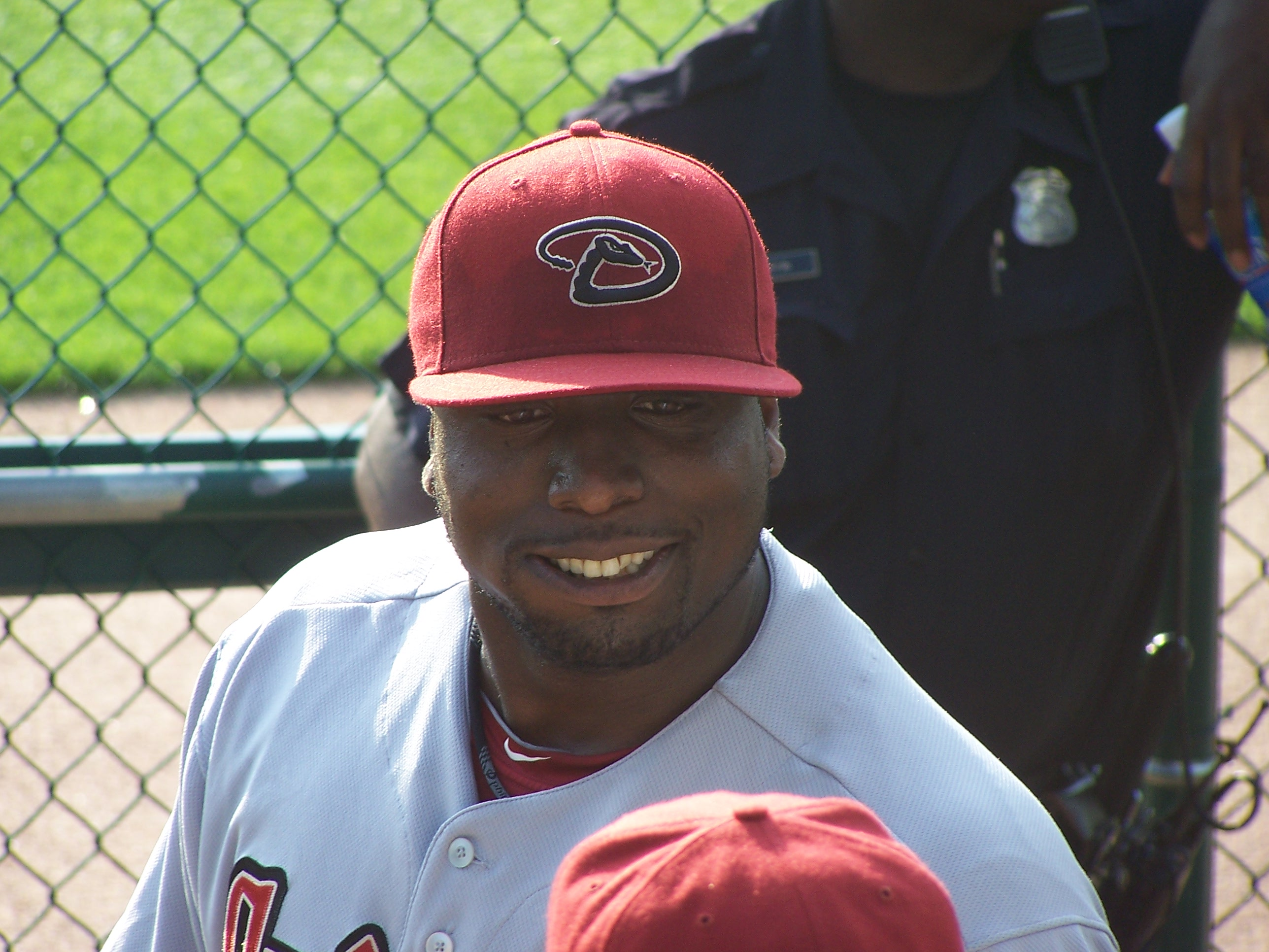 Took when Dontrelle came back to Comerica Park 17:07, 20 June 2010 . . King2028 . . 2,576×1,932 (740 KB)